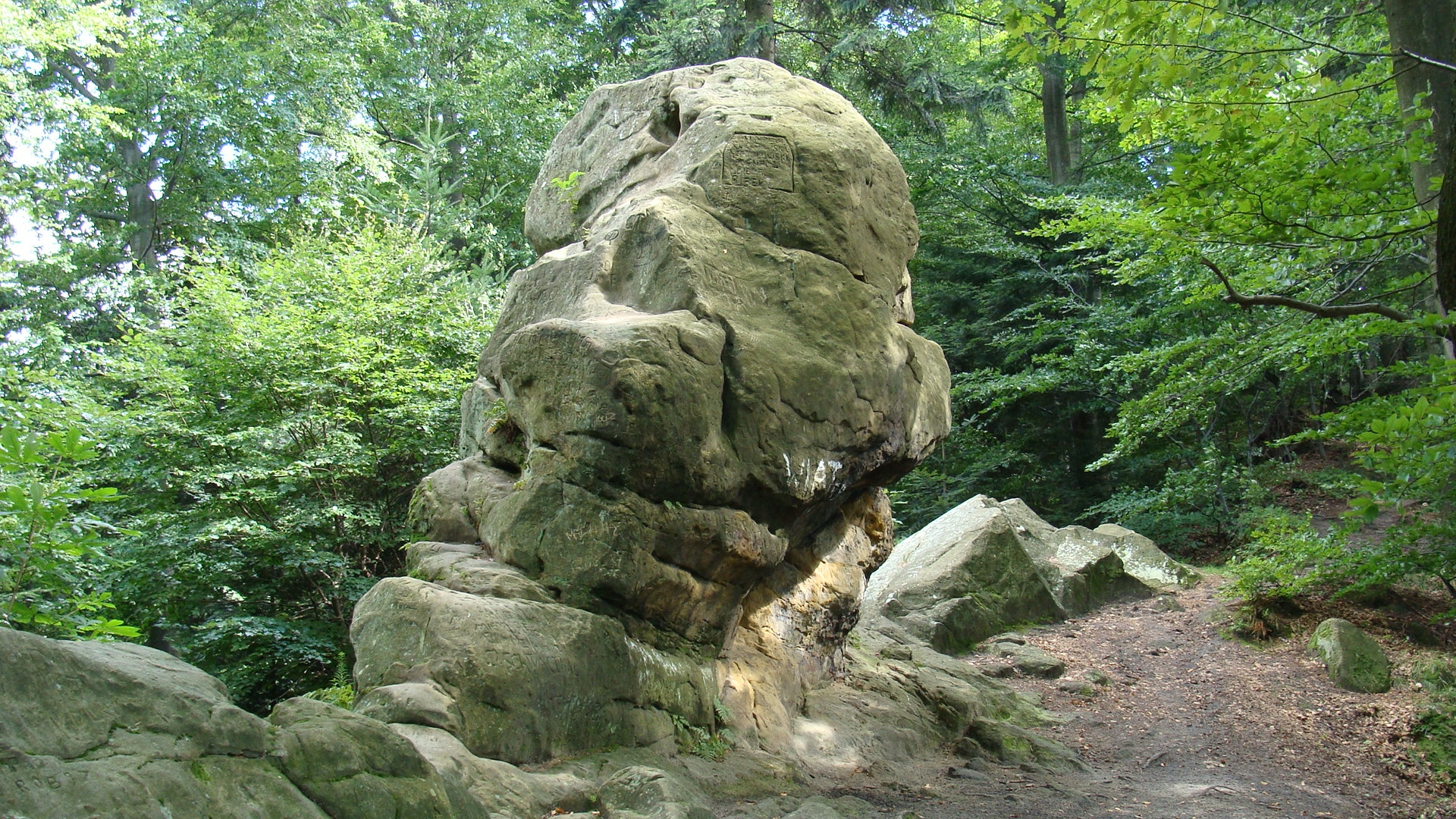 The Eagle Stone (pl. Orli Kamień) in Brine Mauntains (pl. Góry Słonne).